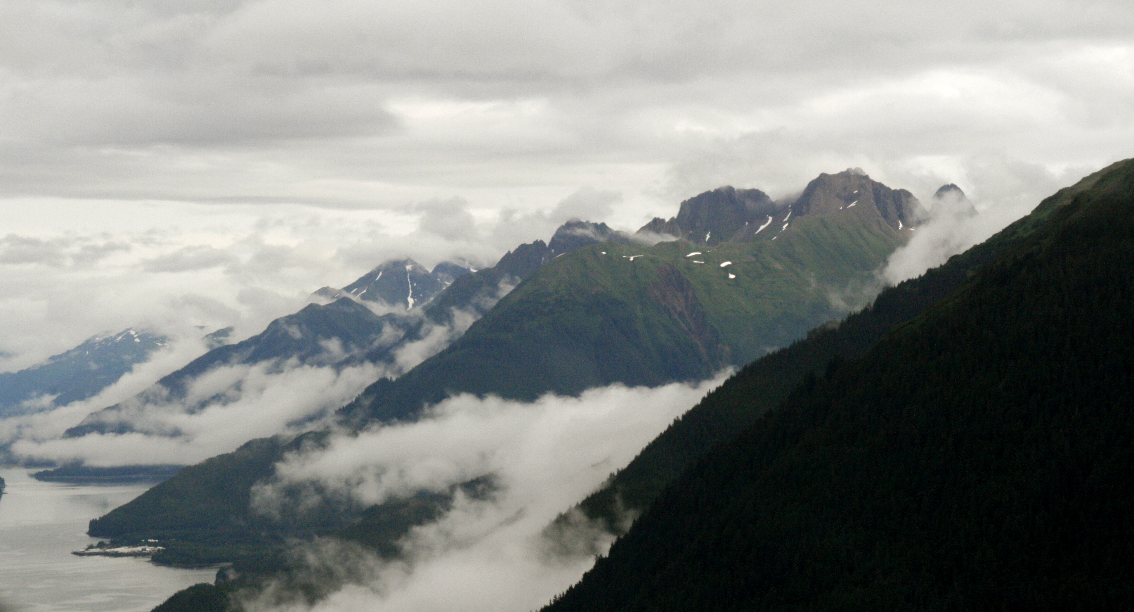 Excursion Inlet Cannery from the air.